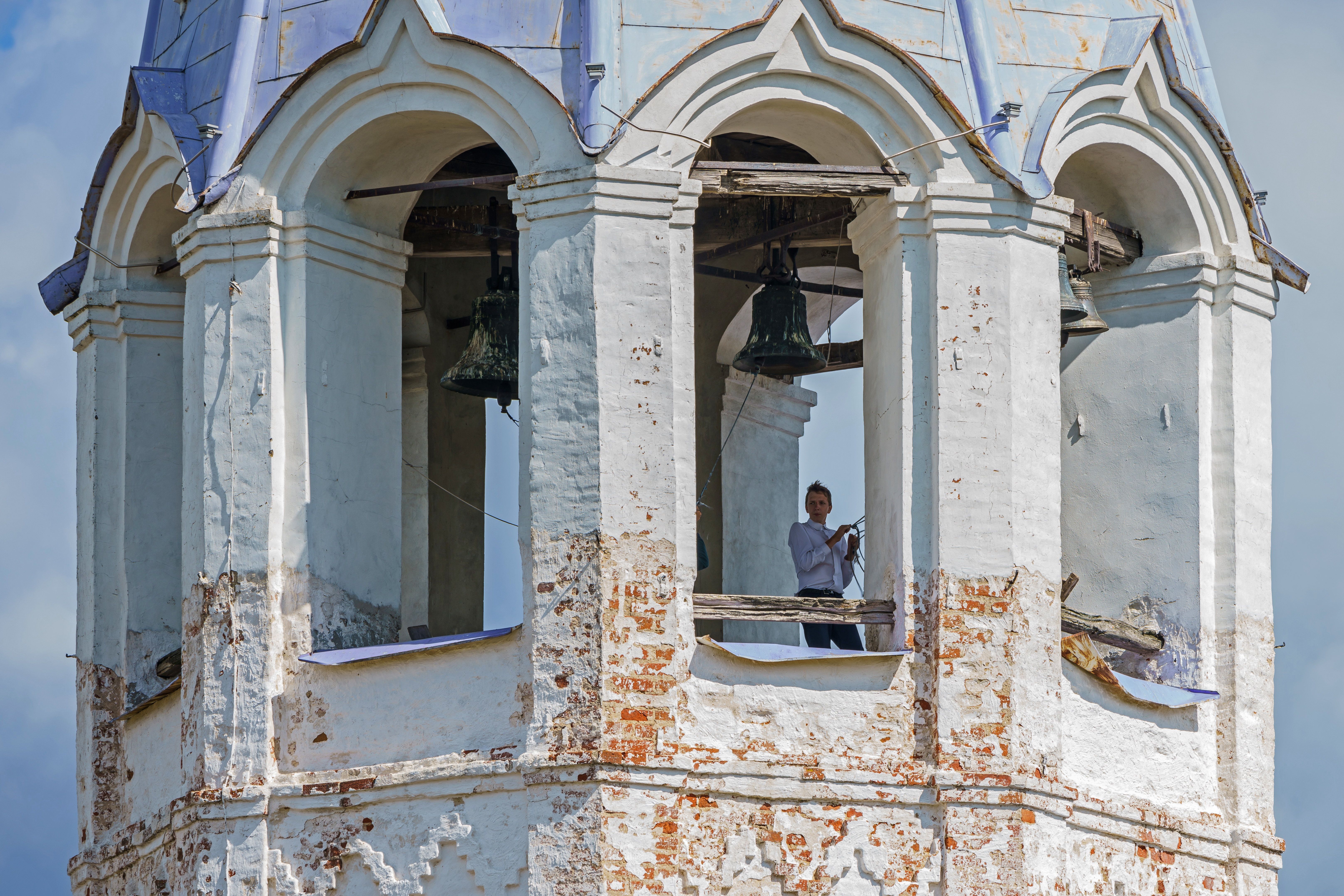 Bell ringer at work – Church of the Descent from the Cross in Palekh, Ivanovo Oblast, Russia.